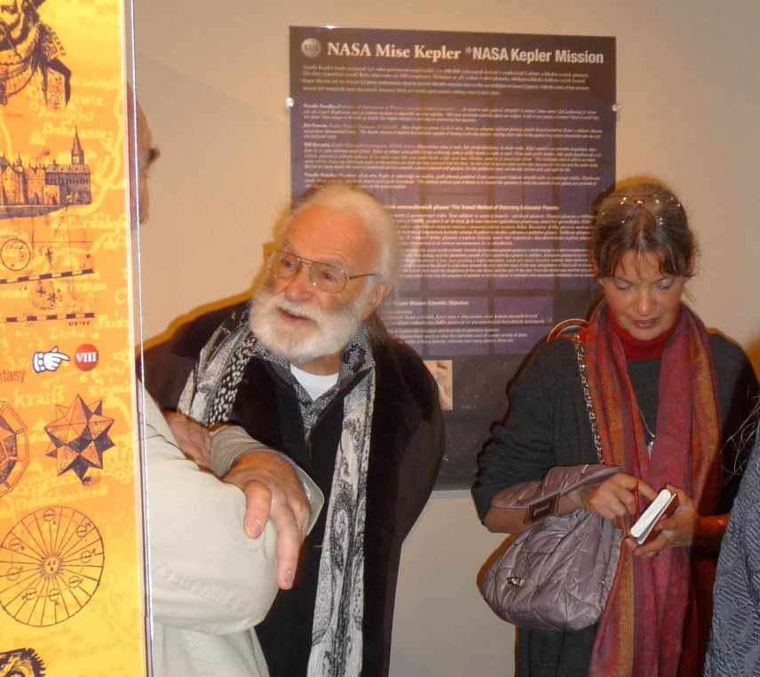 Karl H. Pribram in Kepler Musem, Prague, in 2010